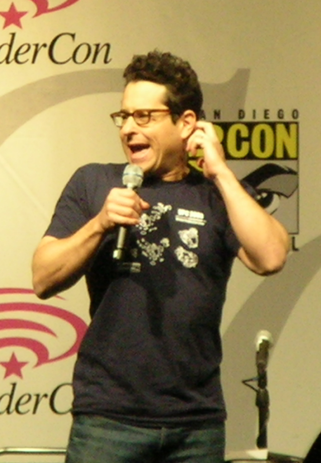 Producer and director J.J. Abrams participating in a Star Trek panel at WonderCon 2009.